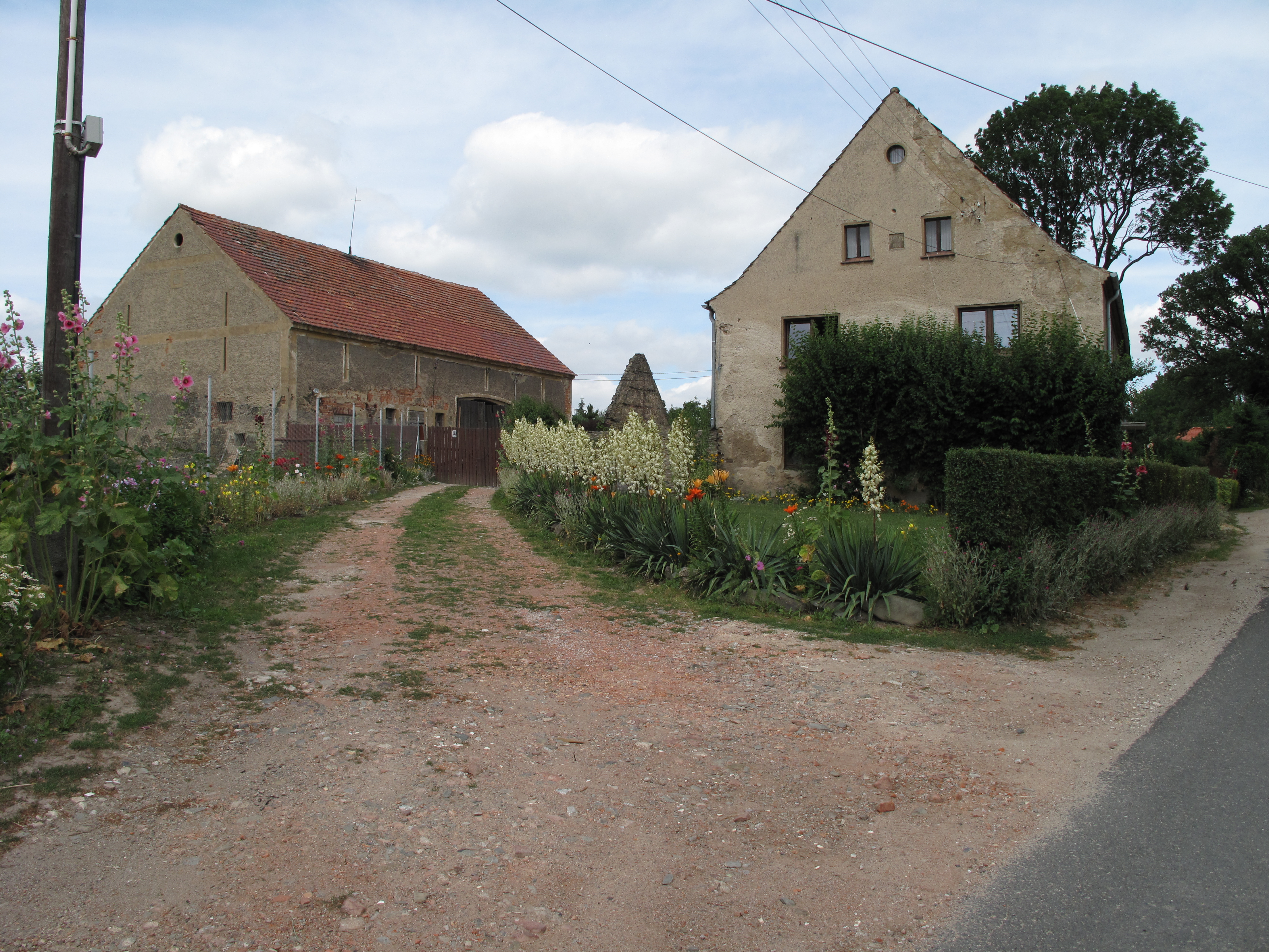 A cottage and a barn with garden in Grozanowice, Lower Silesian Voivodeship, Poland.